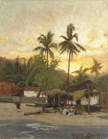 Carl Saltzmann: View of Acapulco, 1879, oil on canvas , 21,5 x 16,7 in. / 54,5 x 42,5 cm